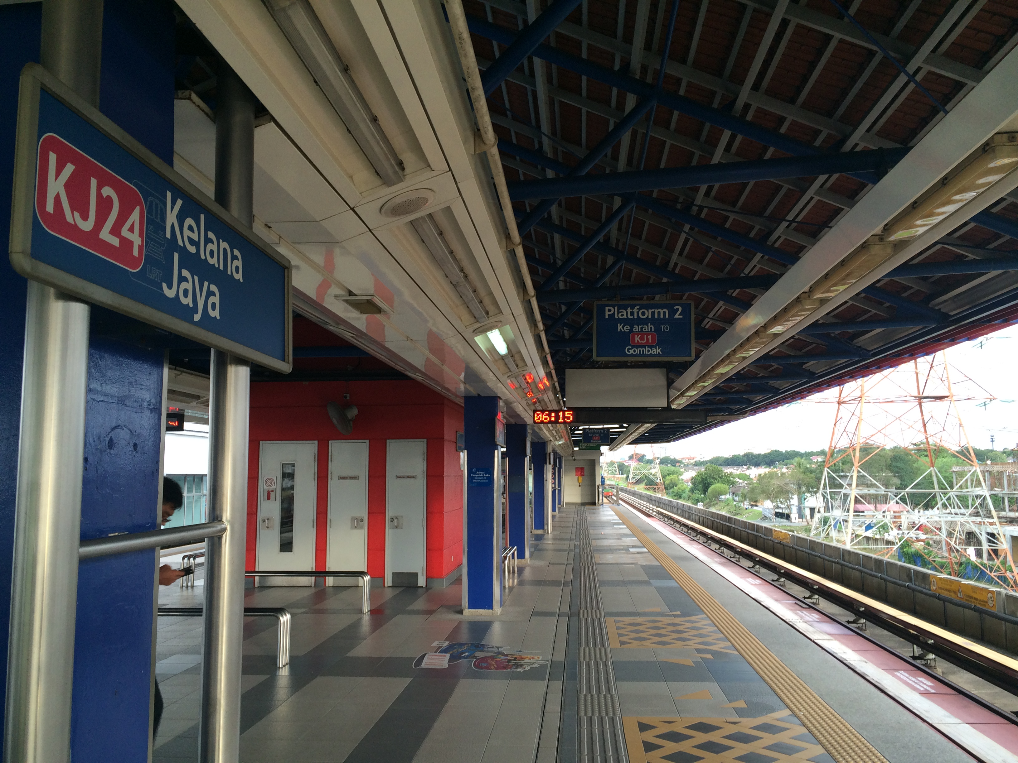 Kelana Jaya LRT - 1